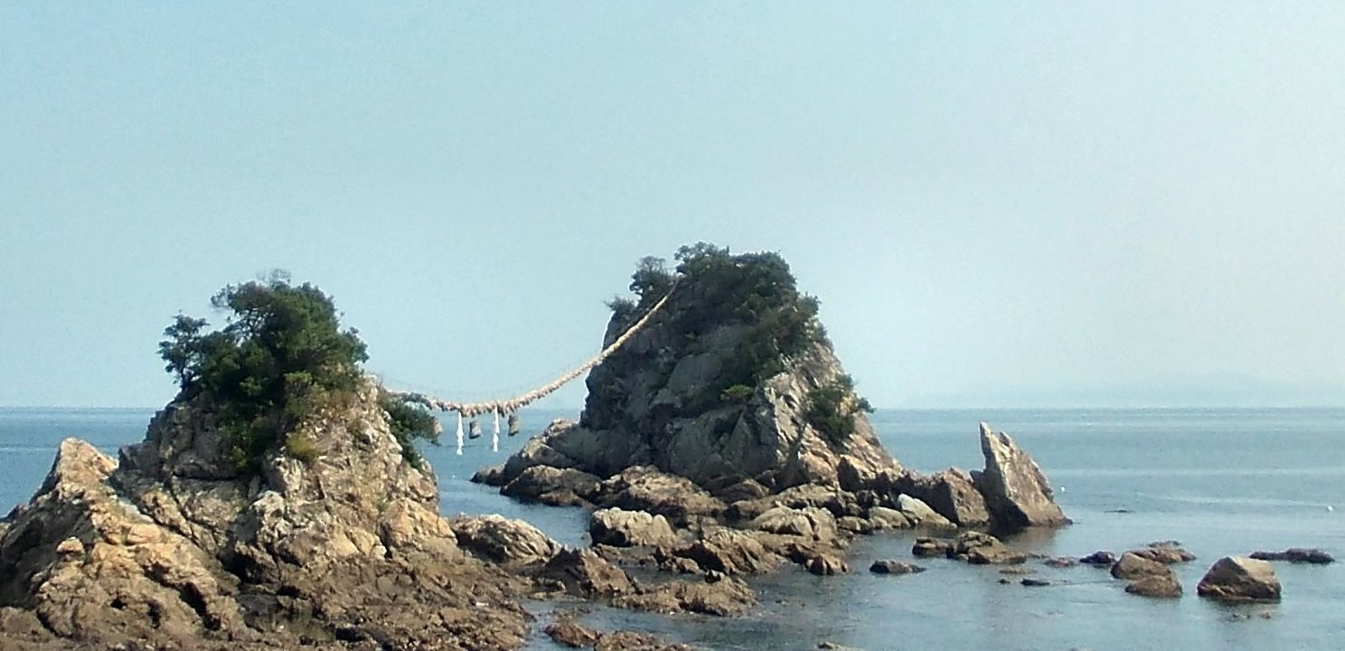 Bungo Futamigaura, Saiki, Oita, Japan